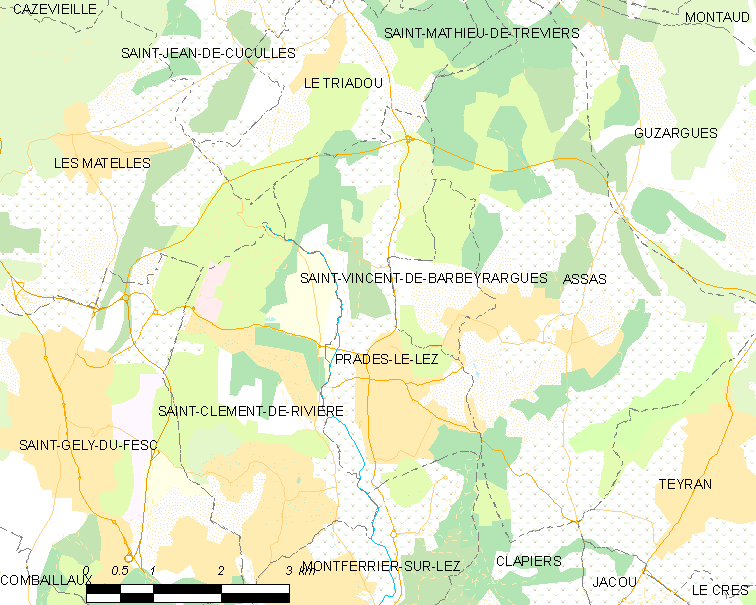 Map commune FR insee code 34217.png - Prades-le-Lez